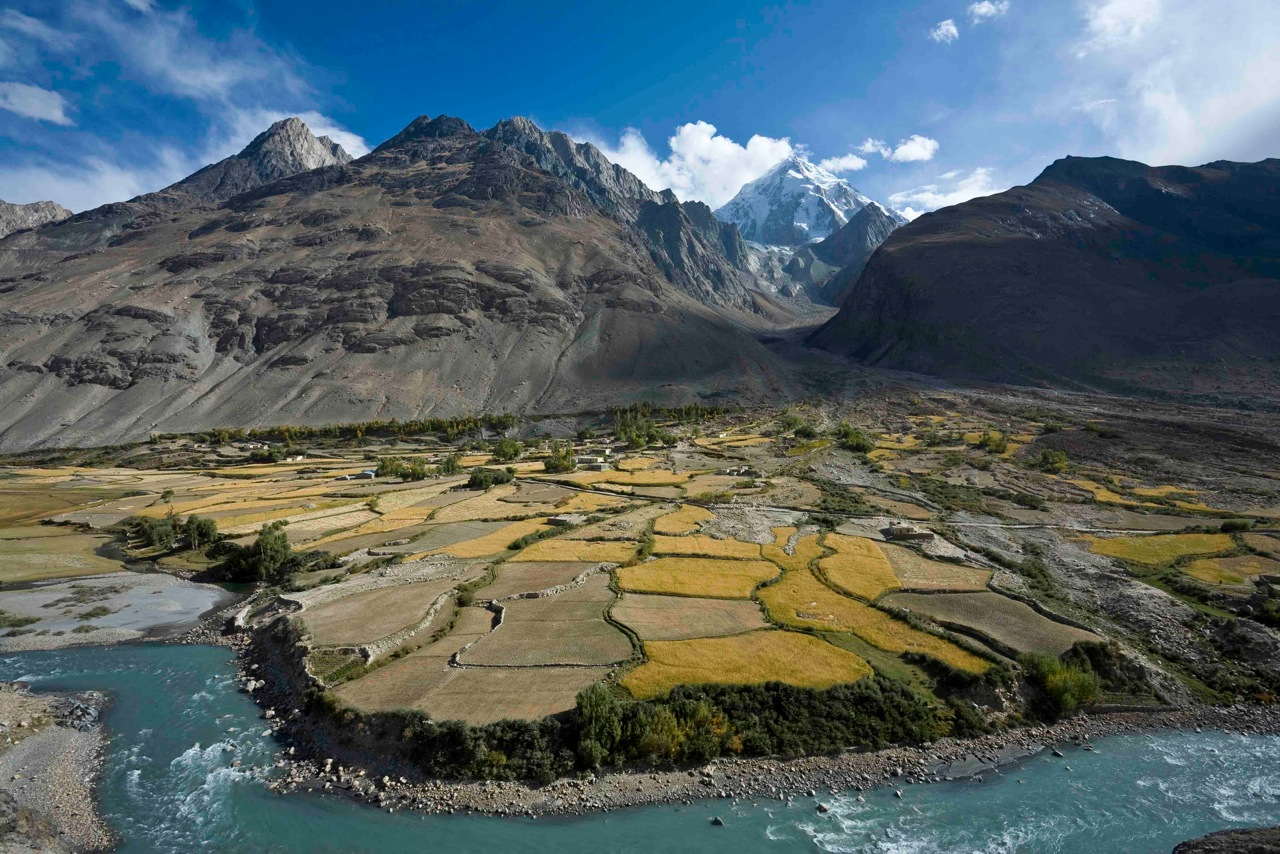 Here, a dramatic view of flood plain cultivation in Wakhan, Afghanistan. Known as "the roof of the world," the Wildlife Conservation Society says the Wakhan Corridor has few rivals in terms of scenic beauty. The little-known area is nestled in the high Pamir Mountains and the region is flanked by the Hindu Kush, Himalayn, Karakoram, and Kunlun ranges. Credit: John Winnie Jr., WCS-Afghanistan